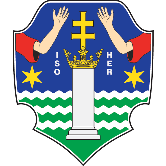 Small Coat of Arms of Ruma